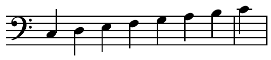 Diatonic scale on C, bass clef.